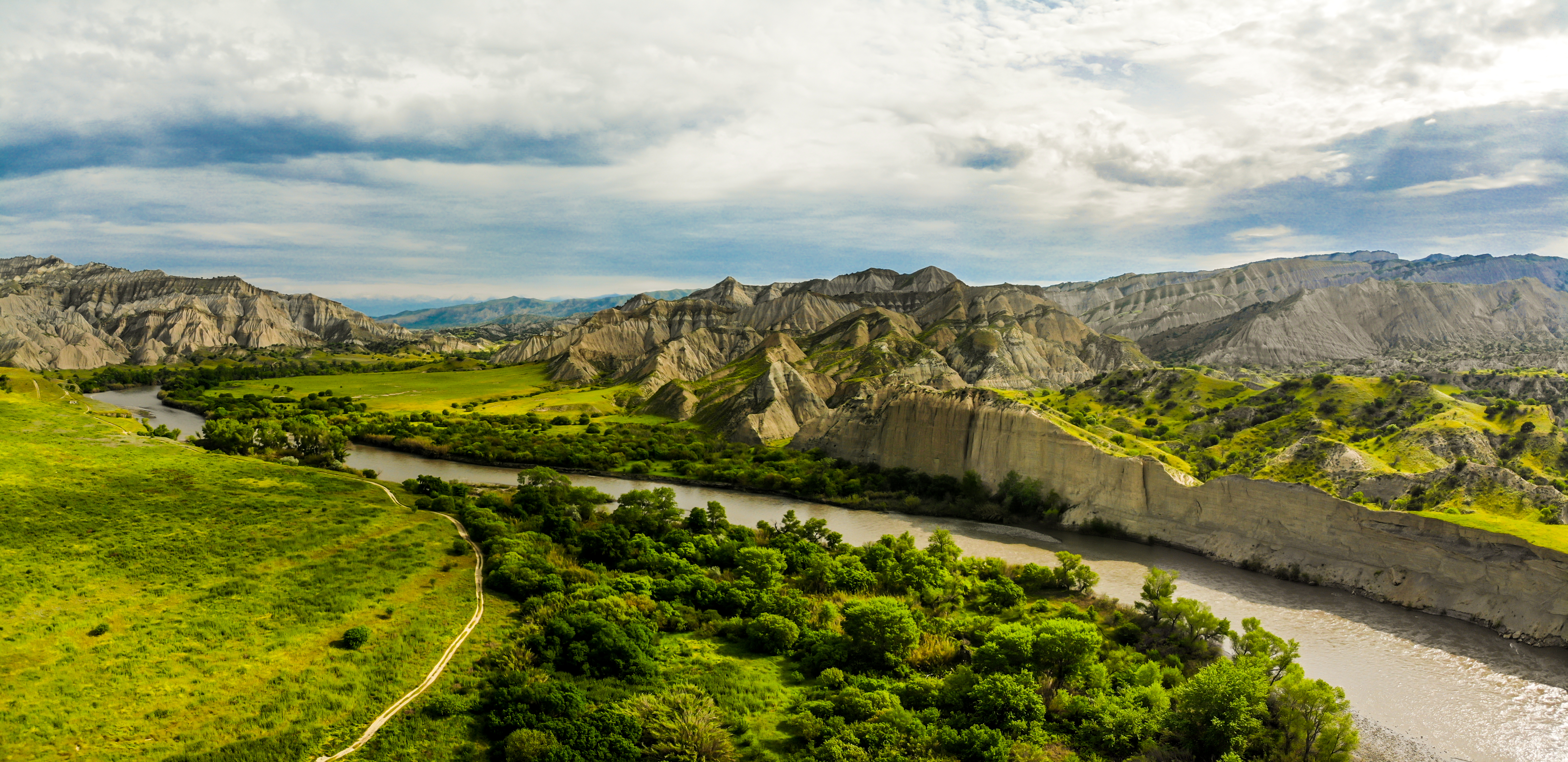 მიჯნისყურე, ვაშლოვანი - საქართველოს და აზერბაიჯანის საზღვარი